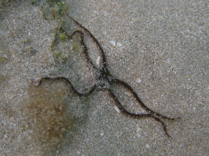 Blunt-spined brittle star (Ophiocoma echinata), Bahia de la Chiva, Vieques, PR